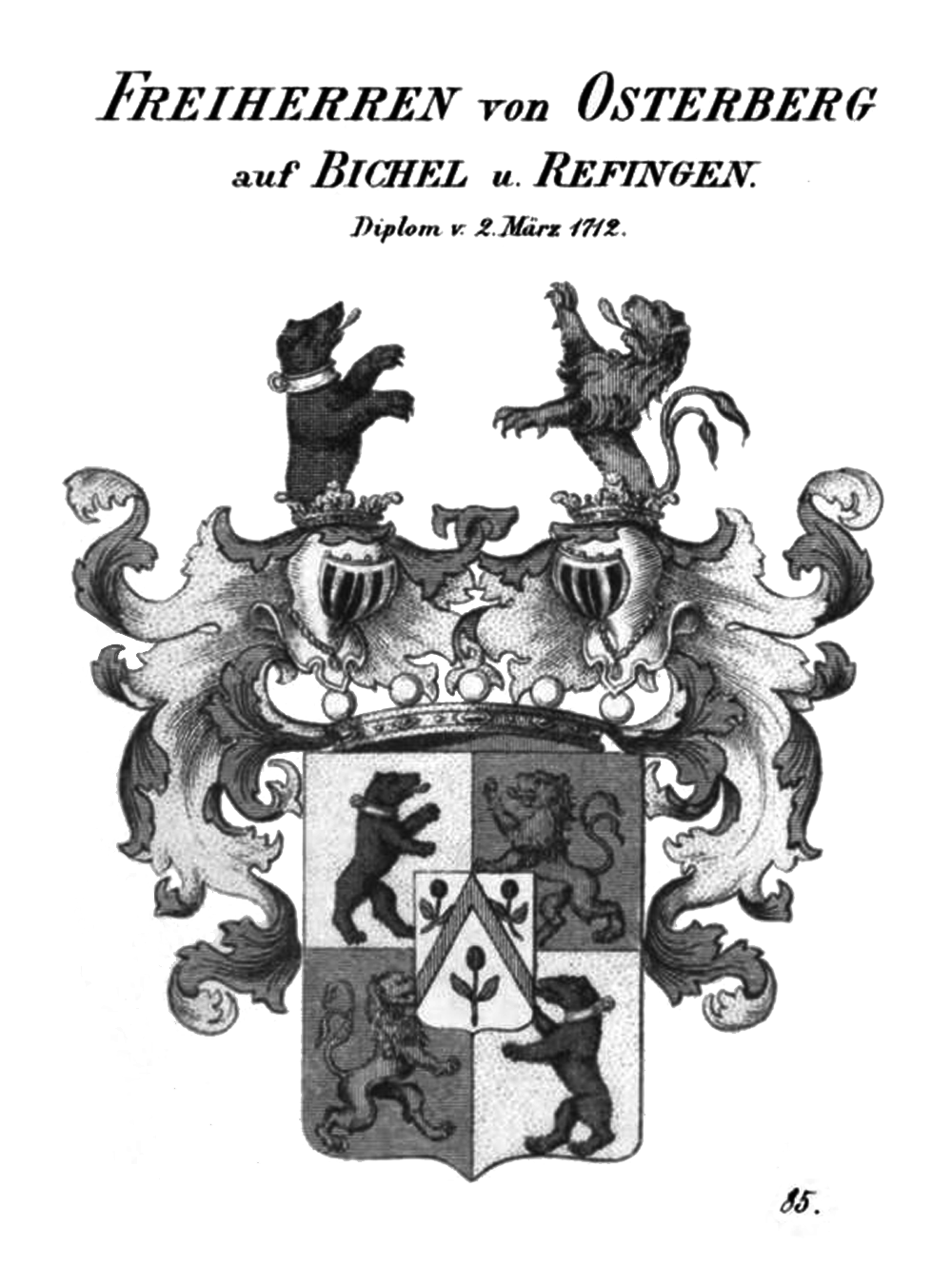 Coats of Arm of Osterberg auf Bichel (Barons)